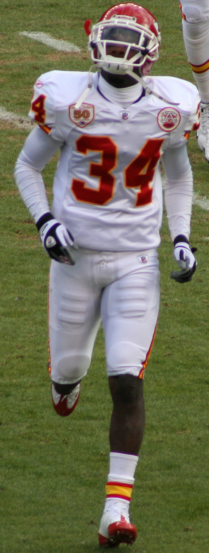 Travis Daniels, a player on the Kansas City Chiefs American football team.